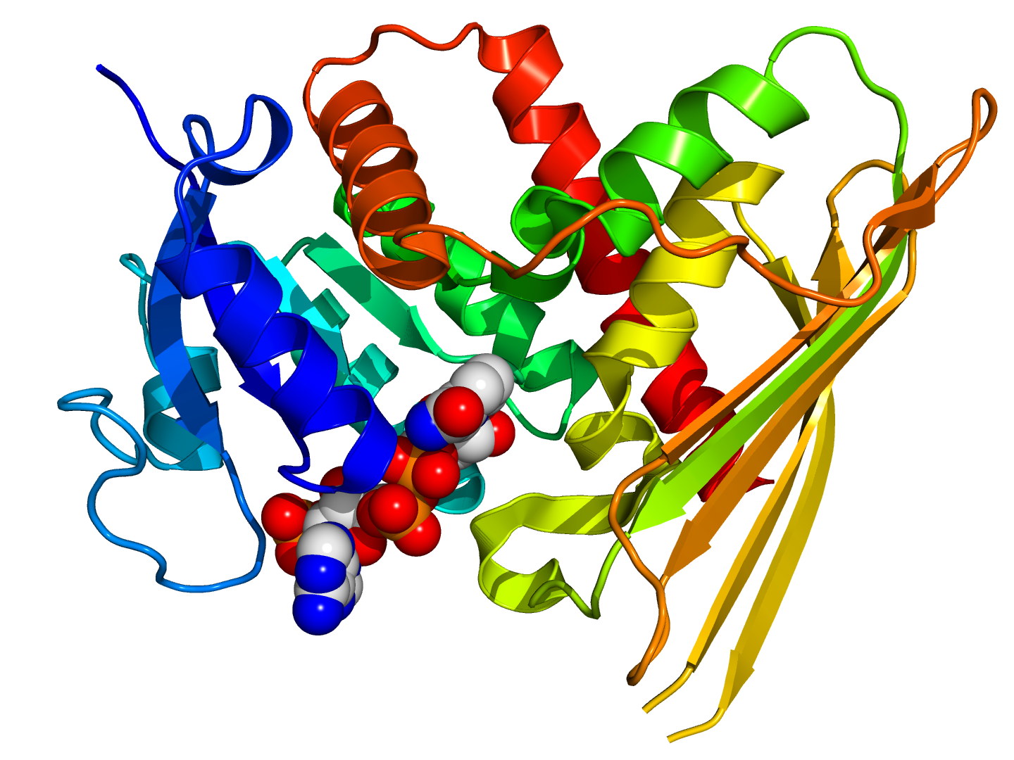 Crystallographic structure of human biliverdin reductase A based on the PDB 2H63 coordinates. The enzyme is displayed as a rainbow colored cartoon (N-terminus = blue, C-terminus = red) while the NADP cofactor is displayed as space-filling model (carbon = white, oxygen = red, nitrogen = blue, phosphorous = orange).